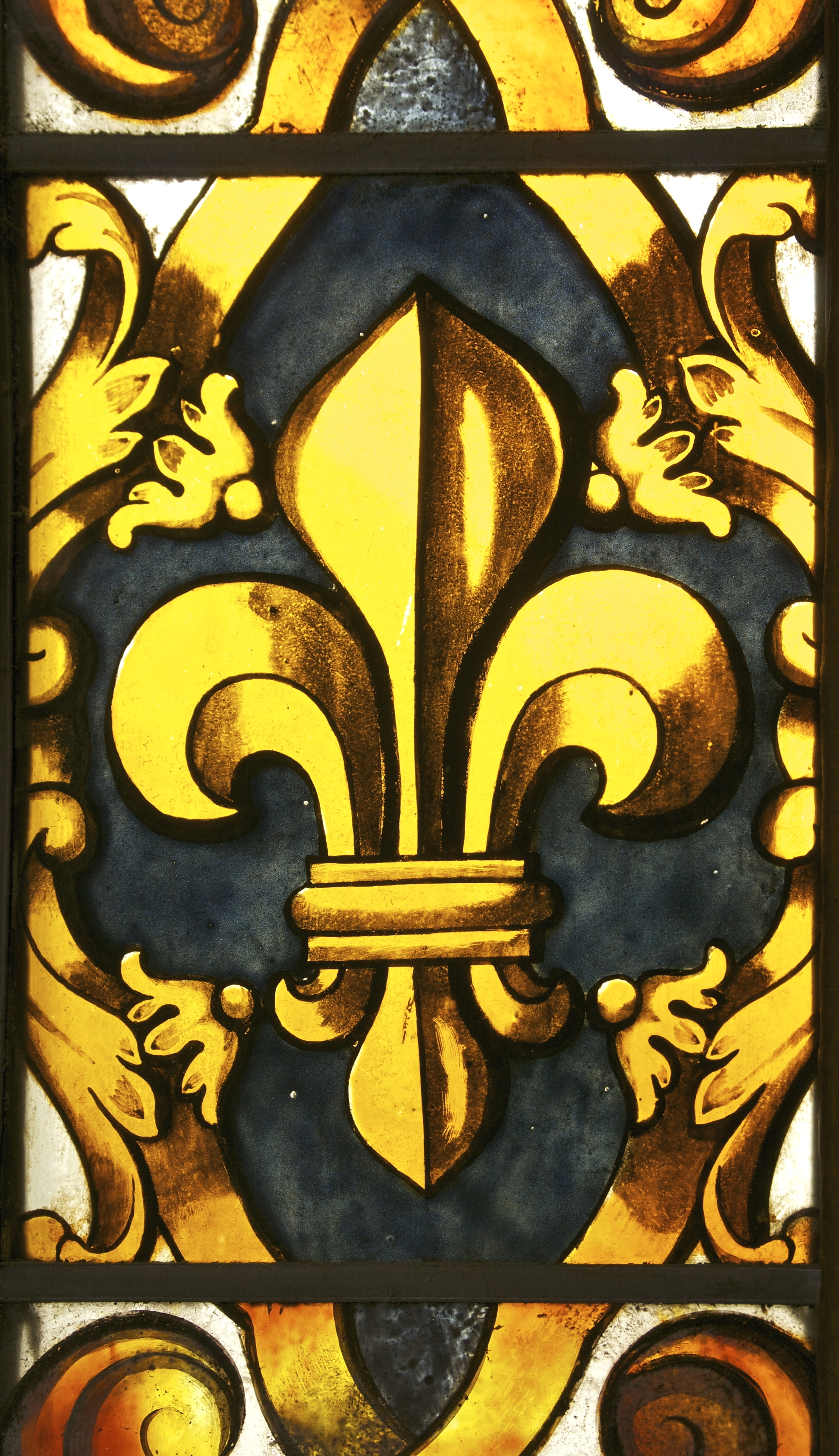 A Fleur-de-lis, detail of stained glass window at Royal Chapel of the Palace of Versailles.